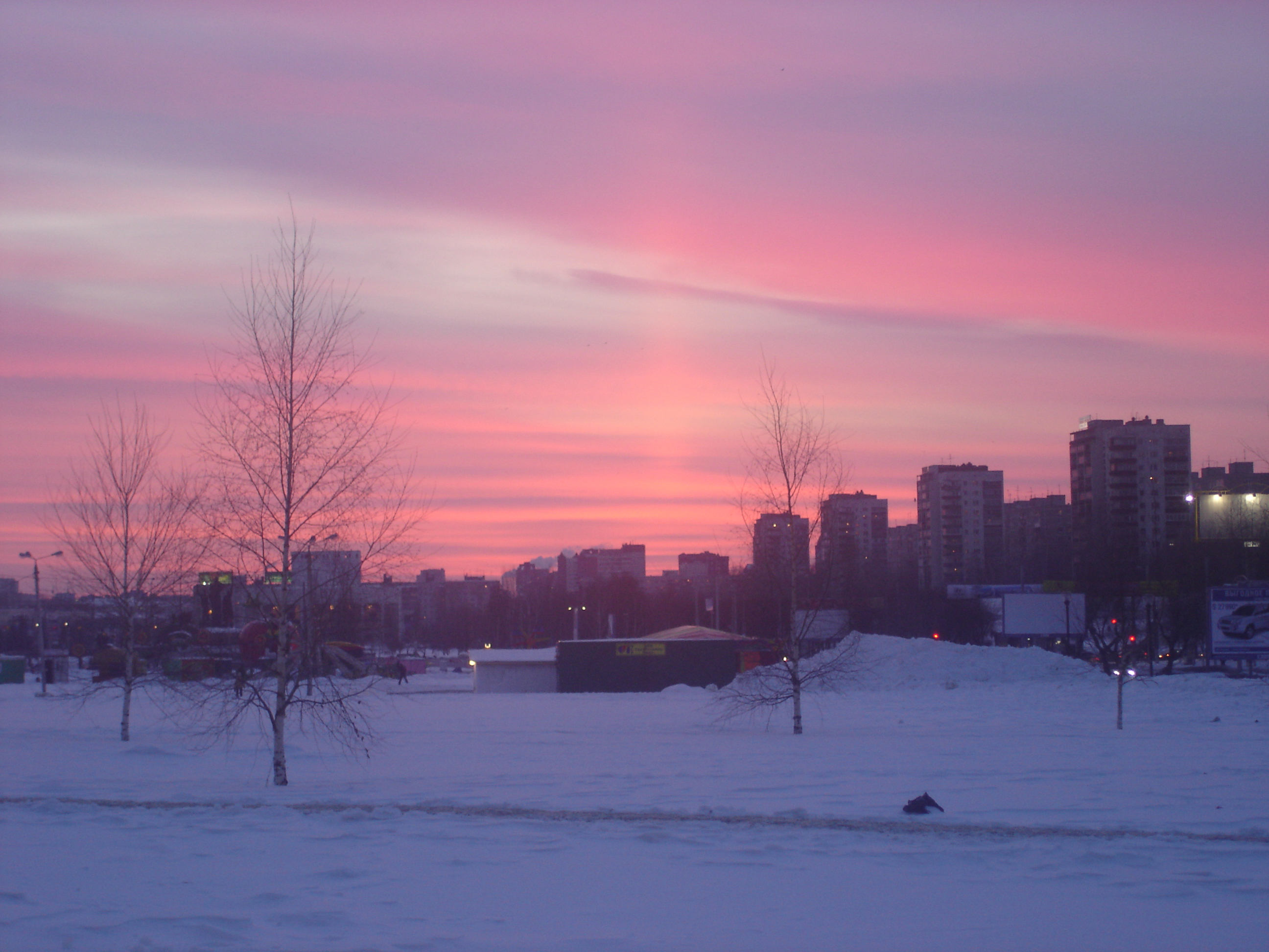 Evening in Perm, Russia